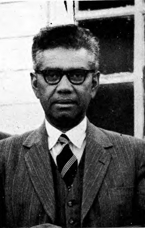 Scientist Anil Kumar Das